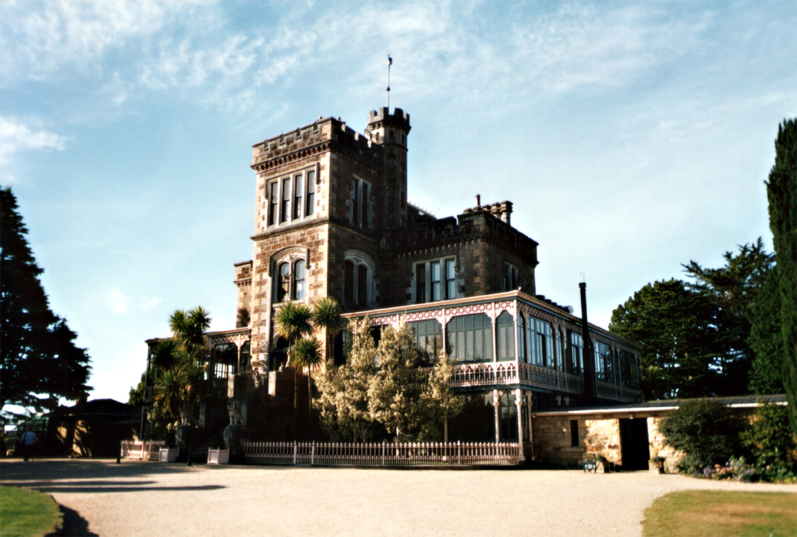 This is the exterior of Larnach Castle during the day, in Dunedin, New Zealand.